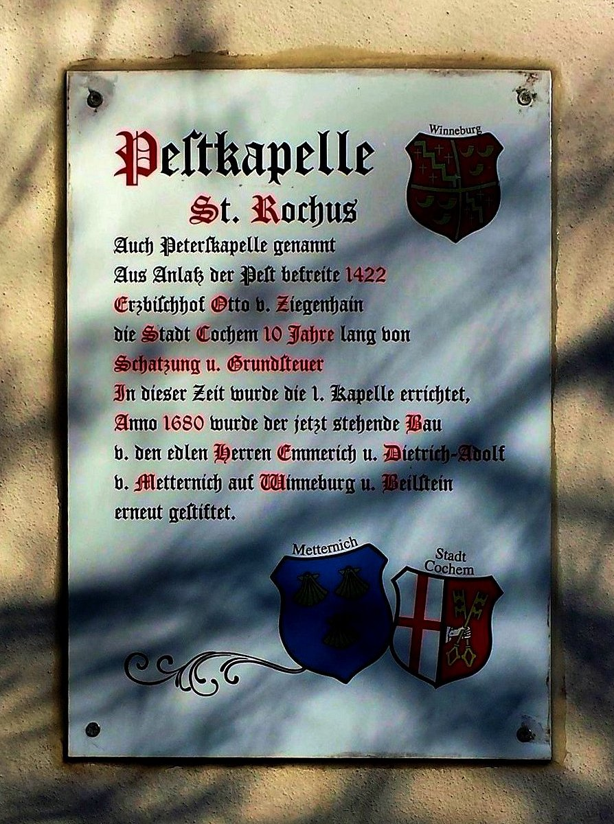 Informationpanel at the Pest Kapelle St. Rochus in Cochem